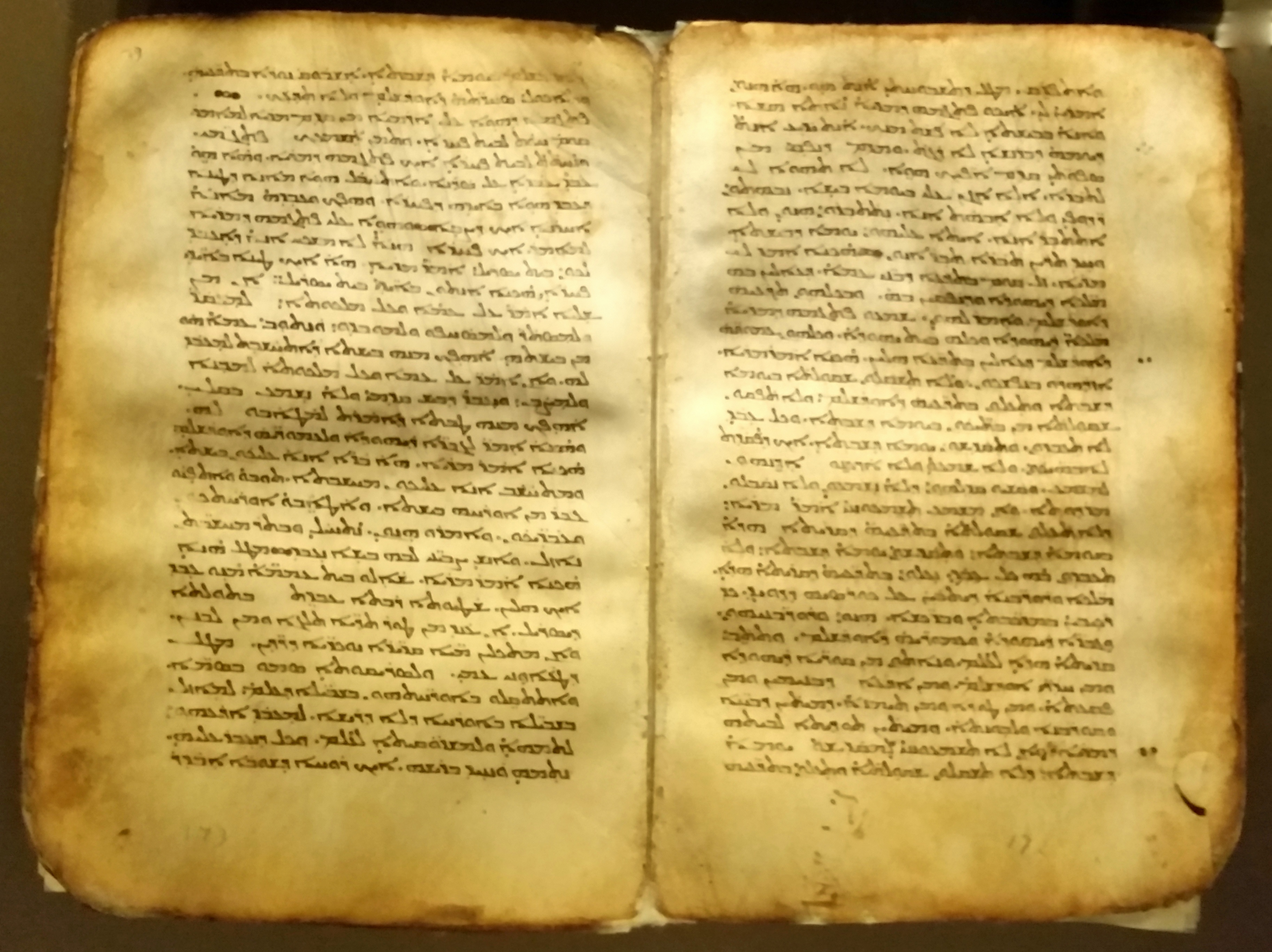 Manuscript on parchment of the book is Peshitta: Syrian Aramaic translation of the Bible. May Edessa Greece, 9th century. Displayed in the National Library at Givat Ram, Jerusalem.